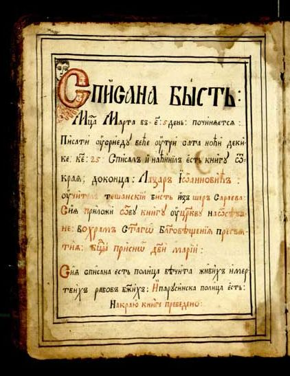 Manuscript book Epistolija written by Lazar Jovanović in 1842 in Tešanj, folio 1 verso (Belgrade, National Library of Serbia, Rs 97). The writer's declaration: "... The book was written and made from the beginning to the end by Lazar Jovanović, the Tešanj teacher, formerly from the city of Sarajevo. This book was donated to the church in Osječani, the Temple of the Holy Annunciation to the All-Holy Theotokos Virgin Mary..."